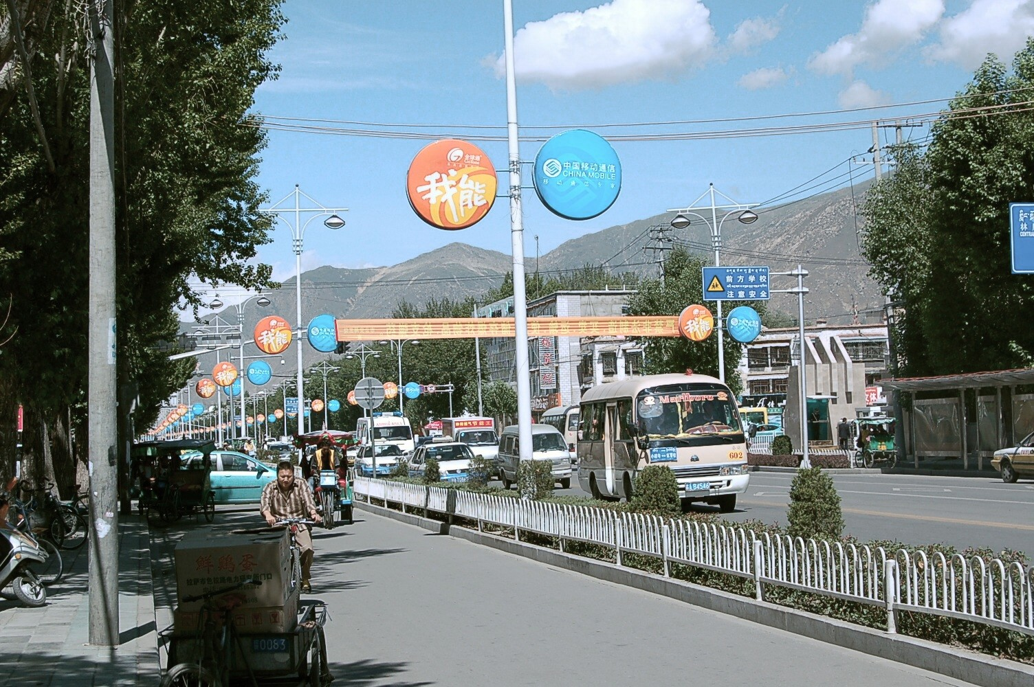 The Linkhor in Lhasa 2007